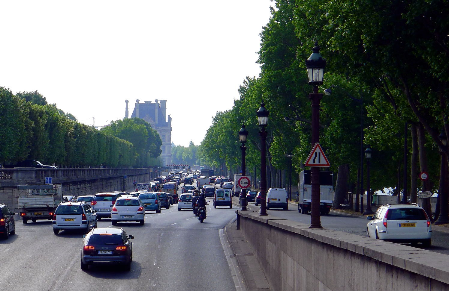 Quai des Tuileries - Paris